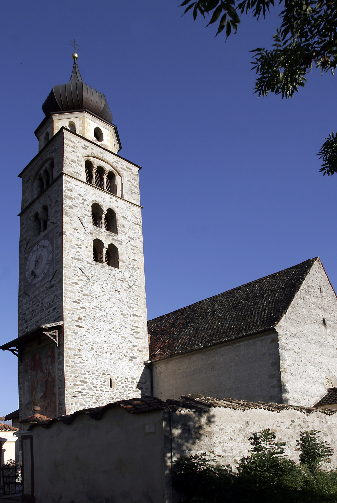 The church of Glurns (South Tyrol)